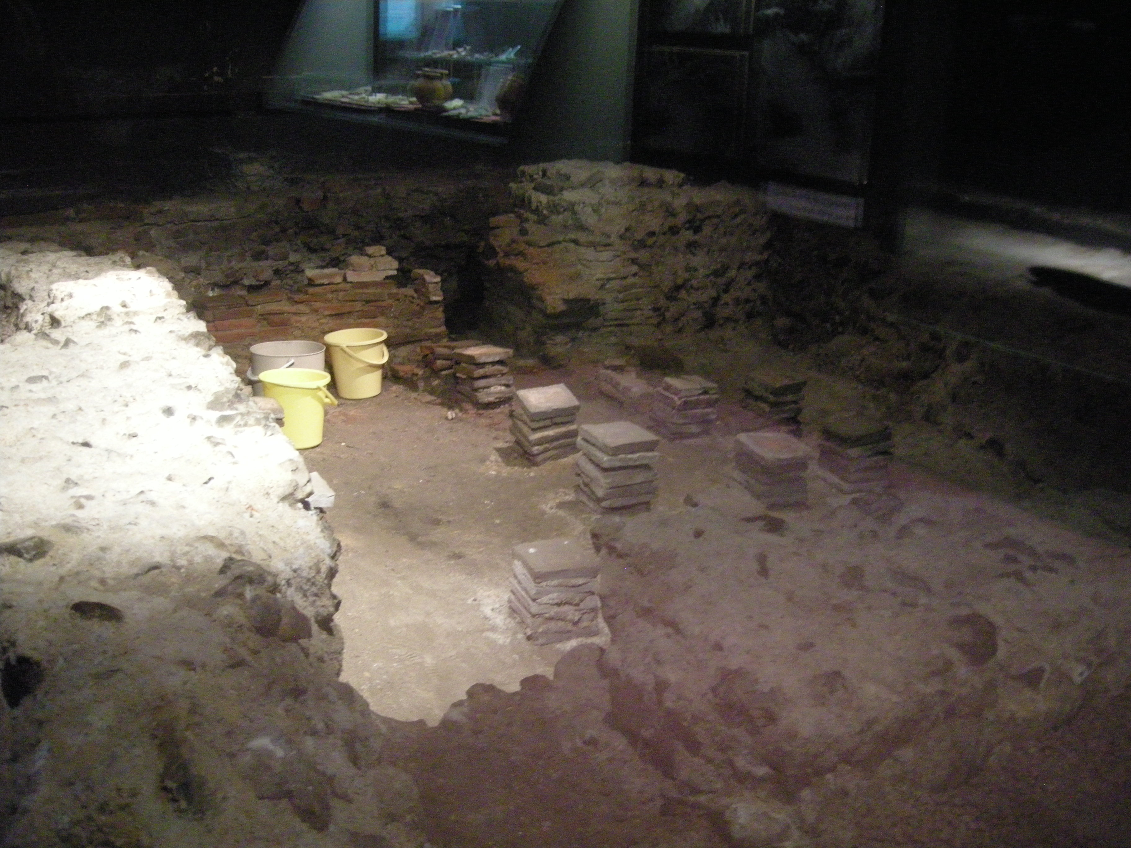 Roman Museum in Butchery Lane, Canterbury, Kent. Room with hypocaust, and firebox behind on lower level. Buckets to indicate size. Walls are Grade I listed building.